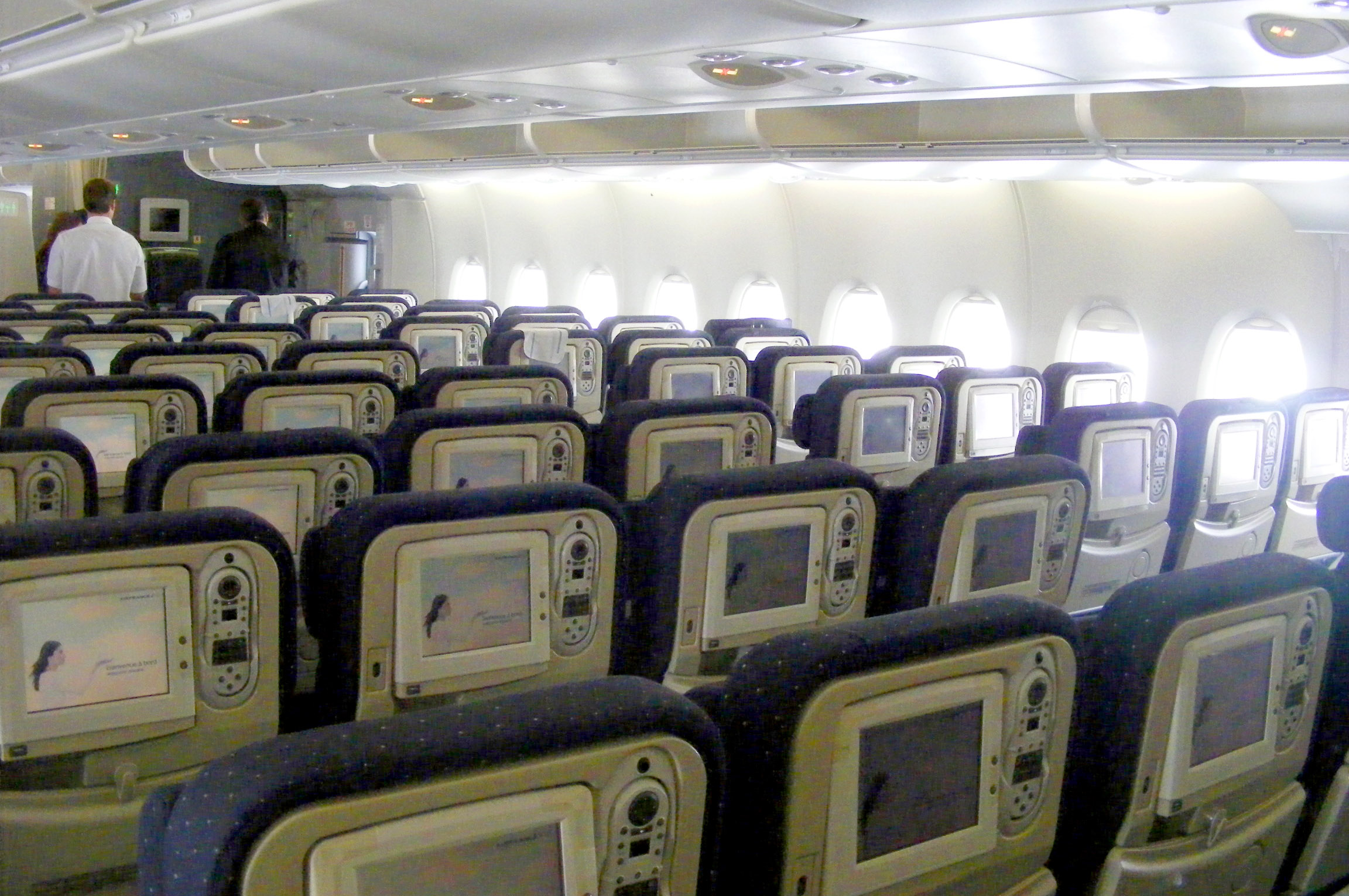 Air France Airbus A380-861 F-HPJA @ London Heathrow